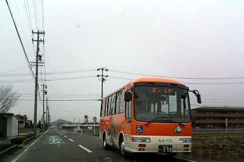 This is a picture of Moto Bus.